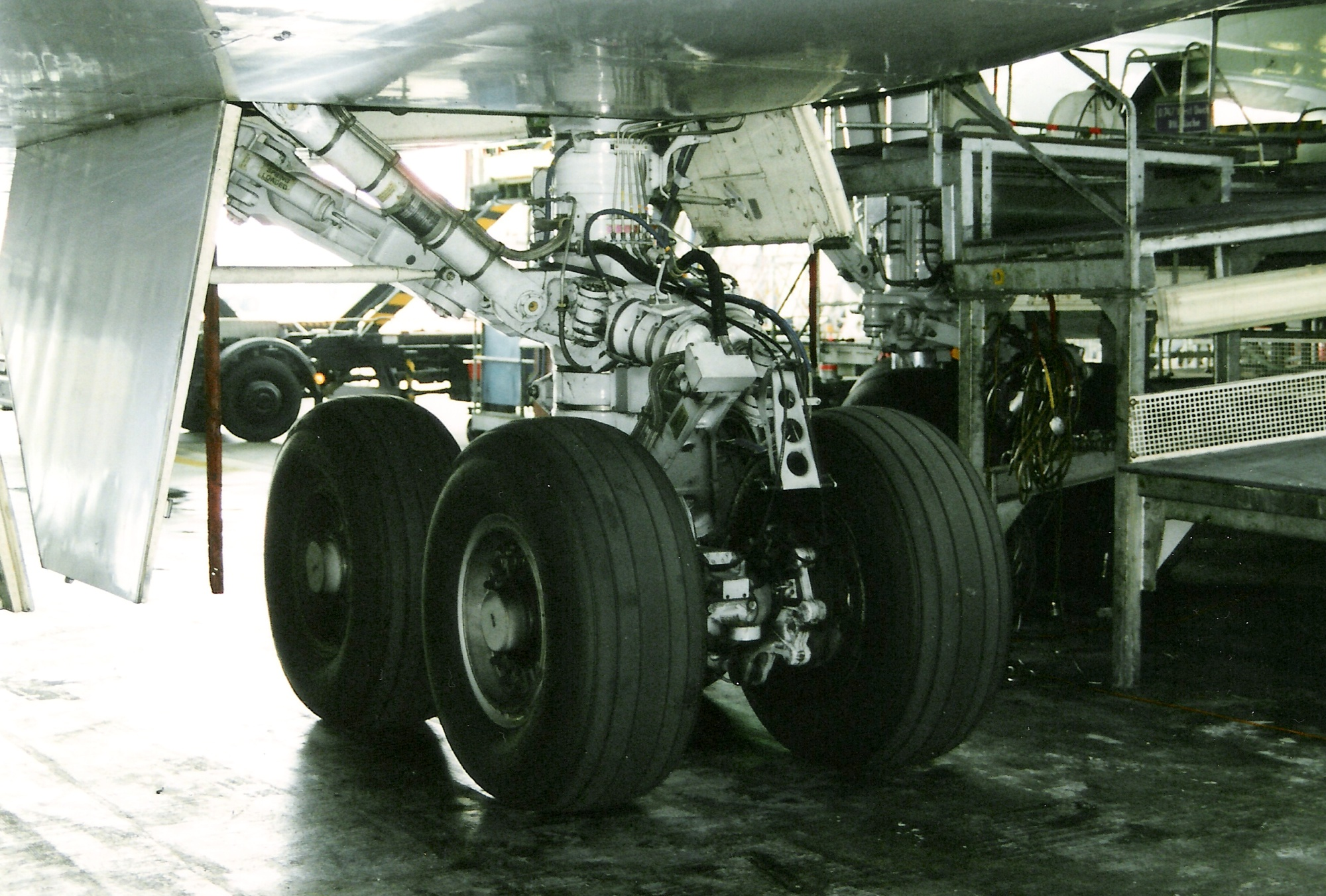 Landing gear of a Lufthansa Boeing 747-400 Photo taken by Michael Krahe, Summer 2002. Licensed under the GFDL.